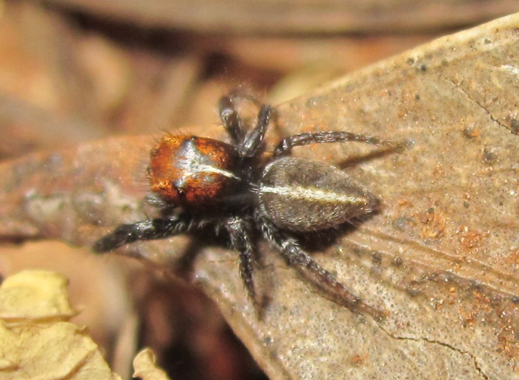 Trydarssus nobilitatus. Species of arachnid.